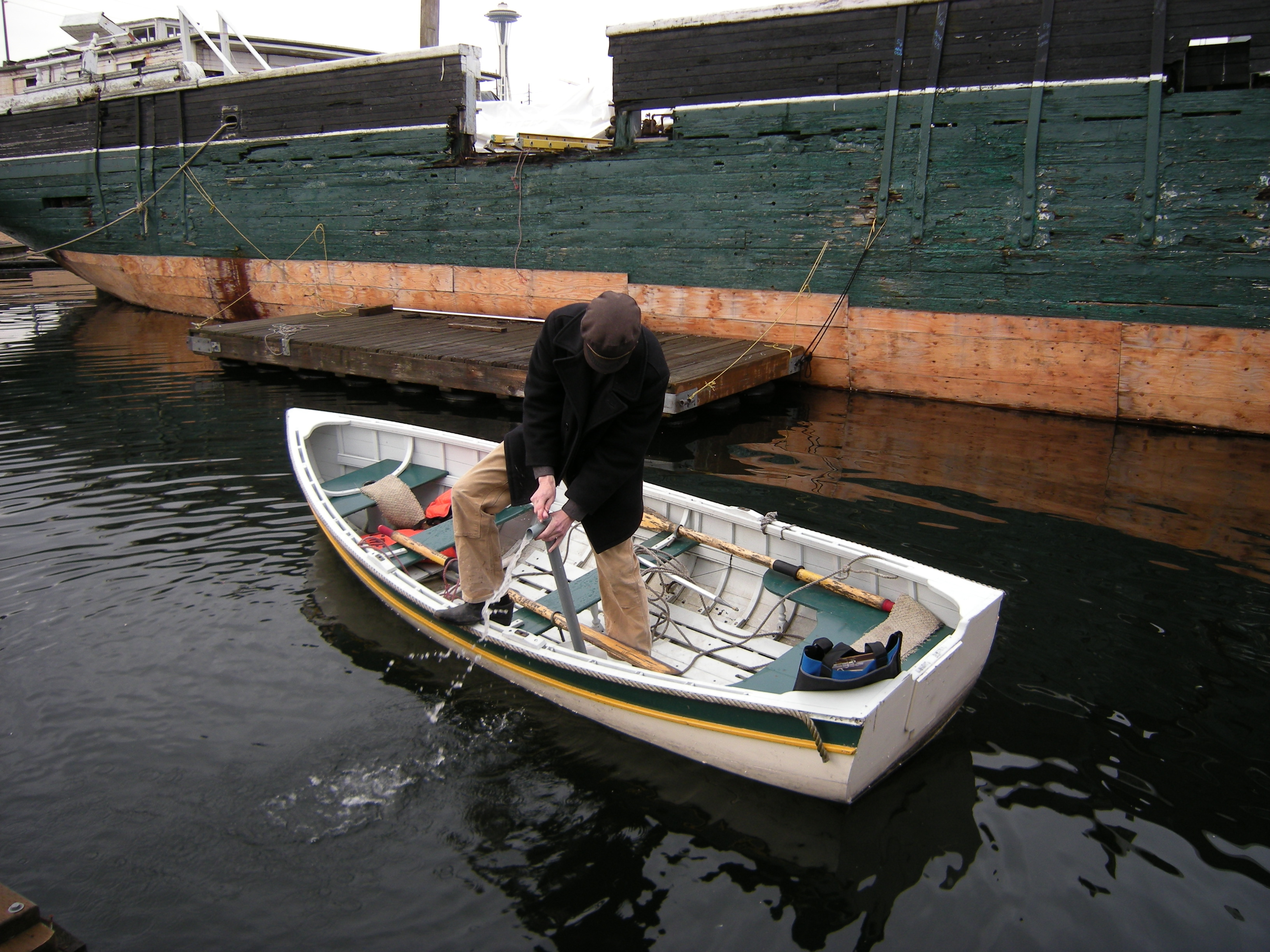 Working a hand bilge-pump for a small boat at the Center for Wooden Boats, South Lake Union, Seattle, Washington. In the background is the schooner Wawona (and behind that the Space Needle). This picture was taken on the 111-year-old Wawona's last full day at Northwest Seaport, South Lake Union, (adjacent to the Center) before being taken away to be dismantled.